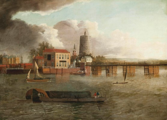 painting of Battersea Bridge, London with the horizontal windmill in the background.